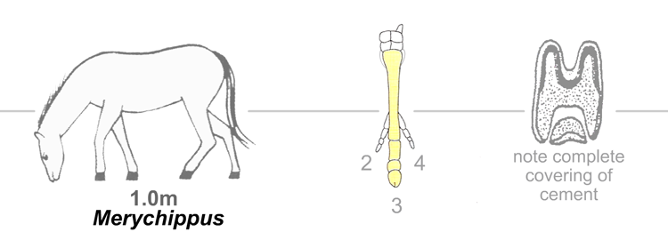 Merychippus drawing (derived from Image:Horseevolution.png a GFDL wikimedia image)